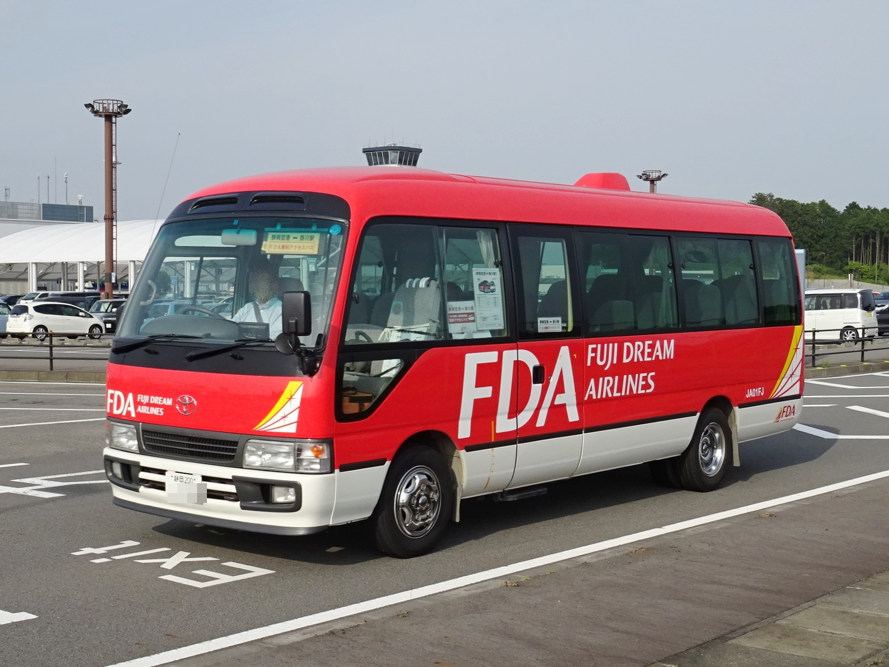 Shizuoka Airport - Kakegawa Station. FDA Passenger-only